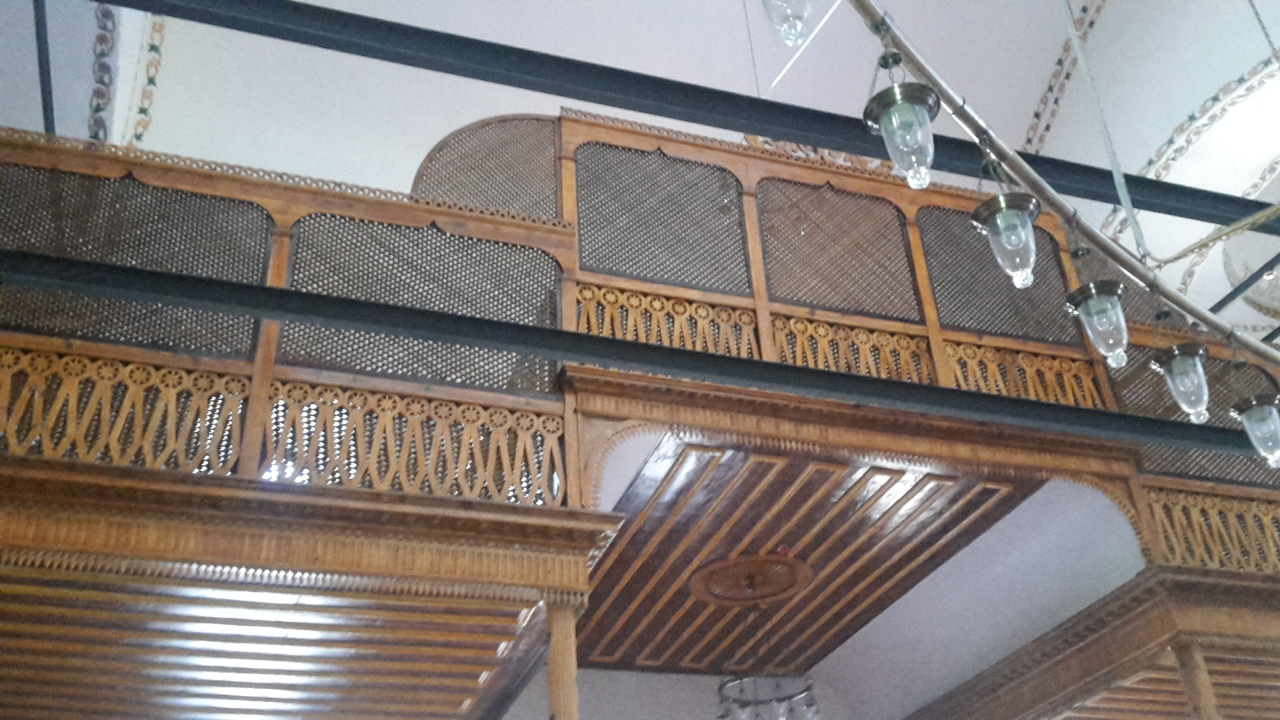 Mehfil of the Zagan Pasha Mosque in Balikéssir.